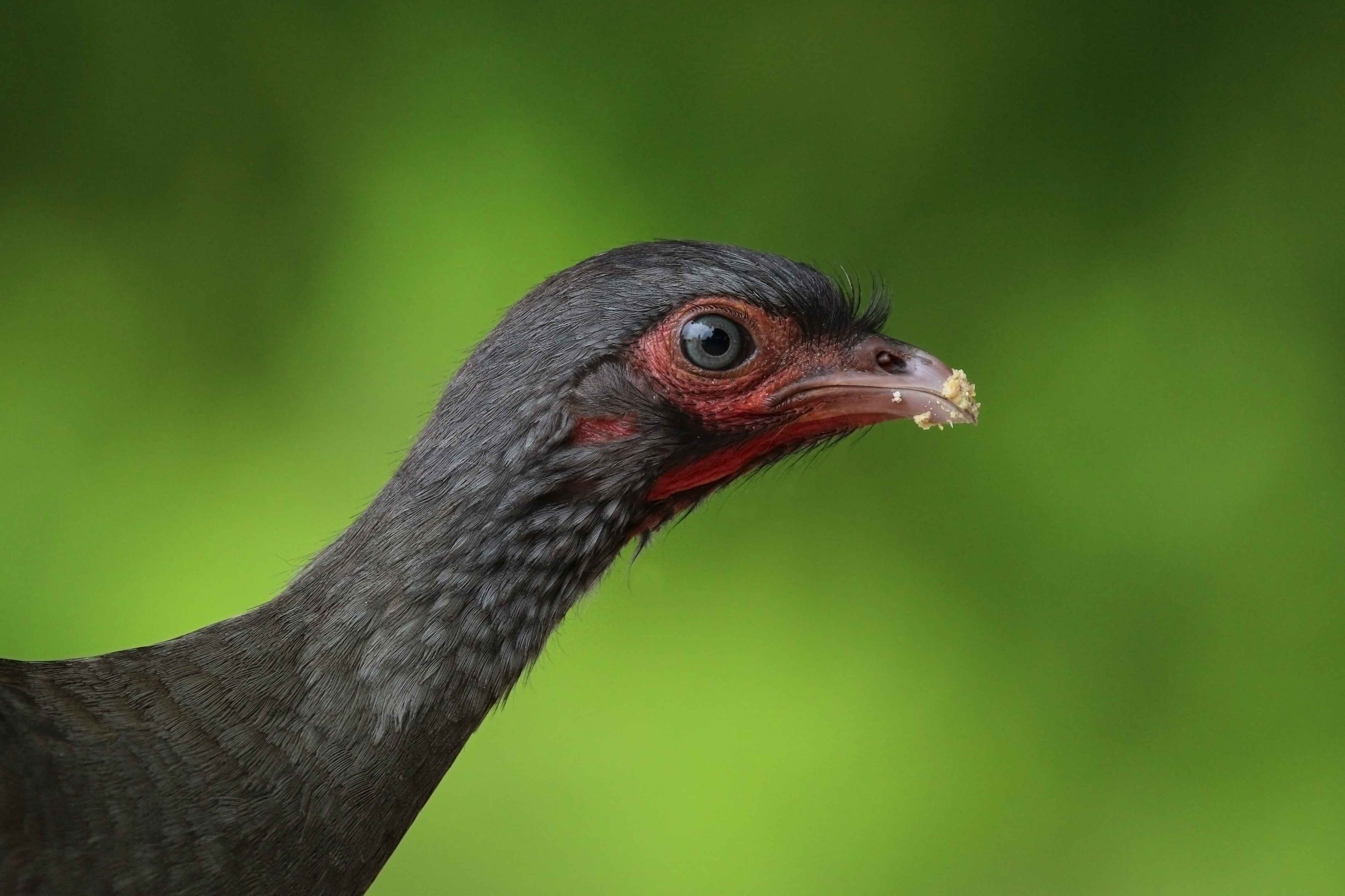 Chaco chachalaca (Ortalis canicollis pantanalensis), Pantanal, Brazil